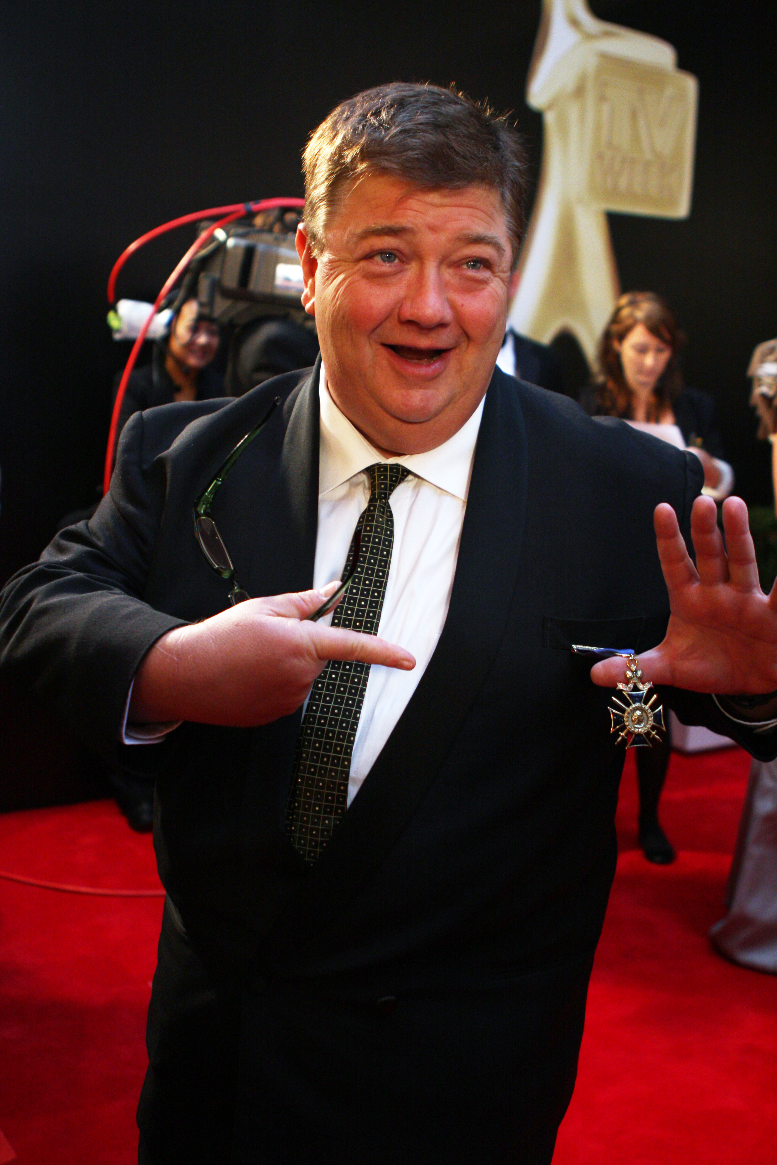 TV WEEK LOGIES 2011 - Jonathan Coleman